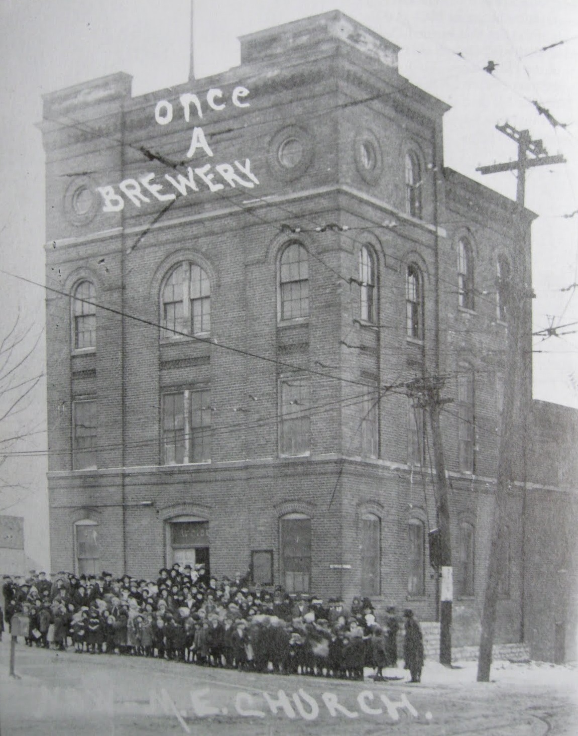 Flint Brewing Company, 1915, converted to a church